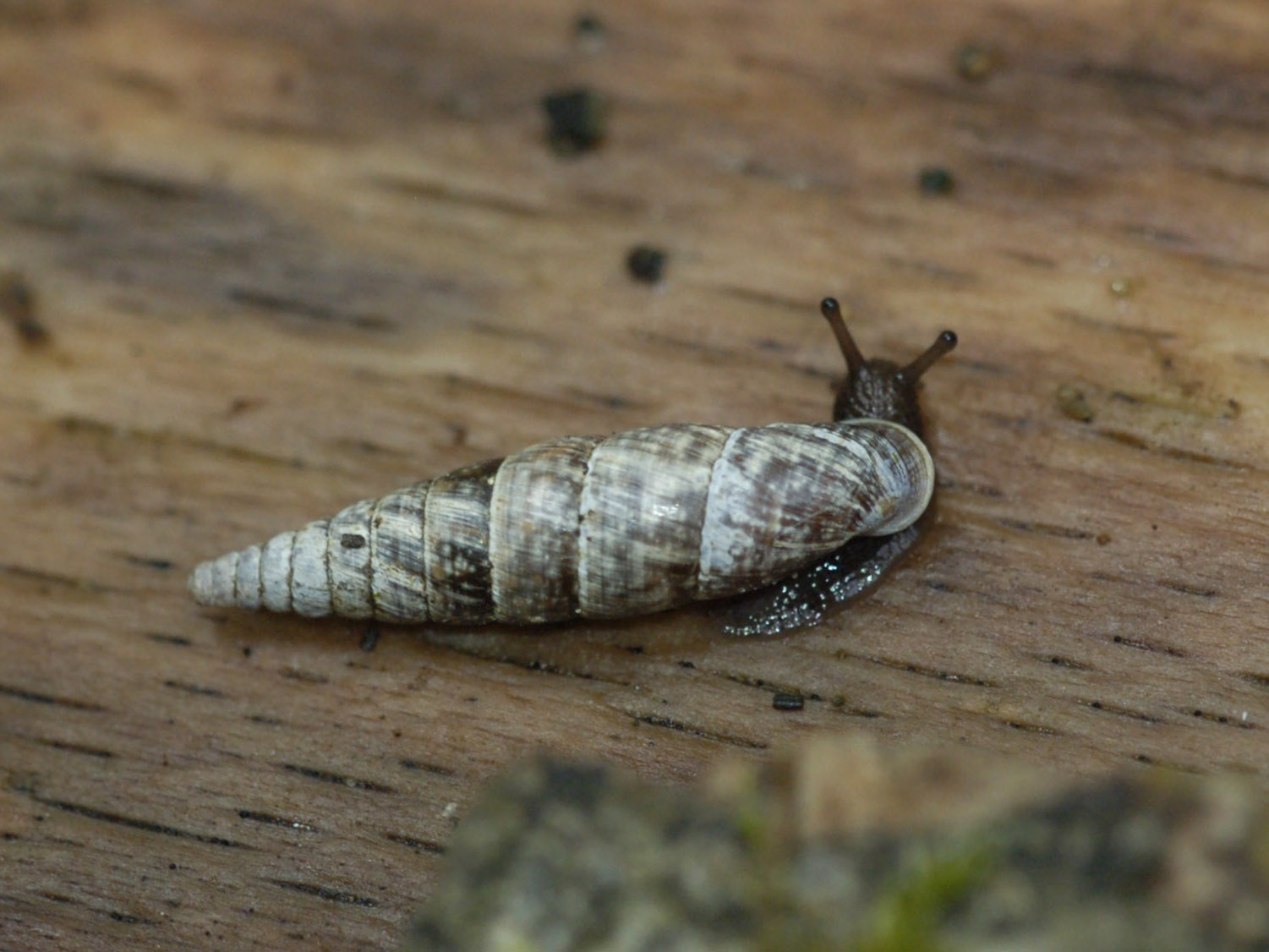 Cochlodina laminata, found in Fürstenberg/Havel, Germany